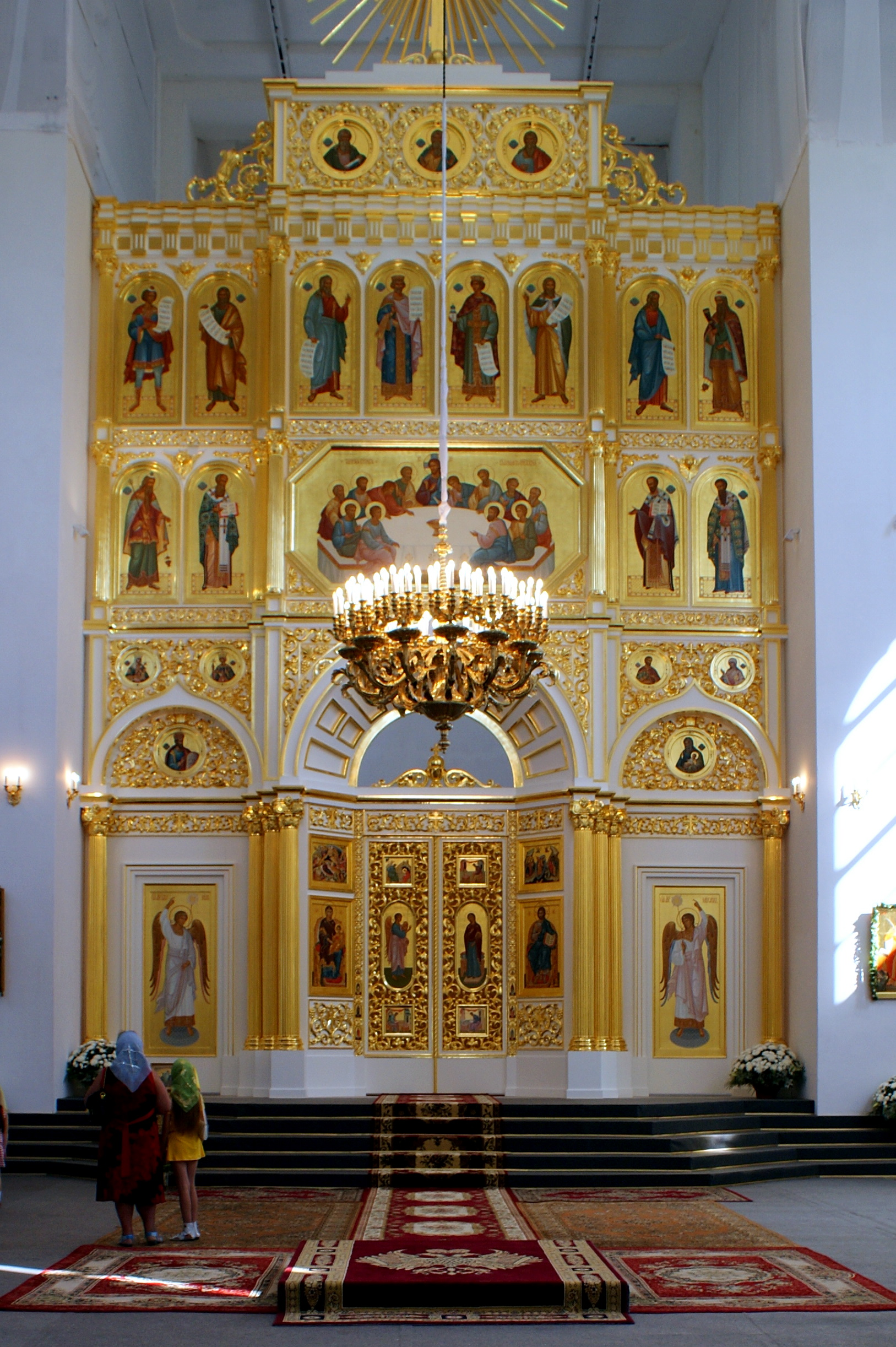 The iconoclasis of St.Catherine cathedral in Tsarskoye Selo